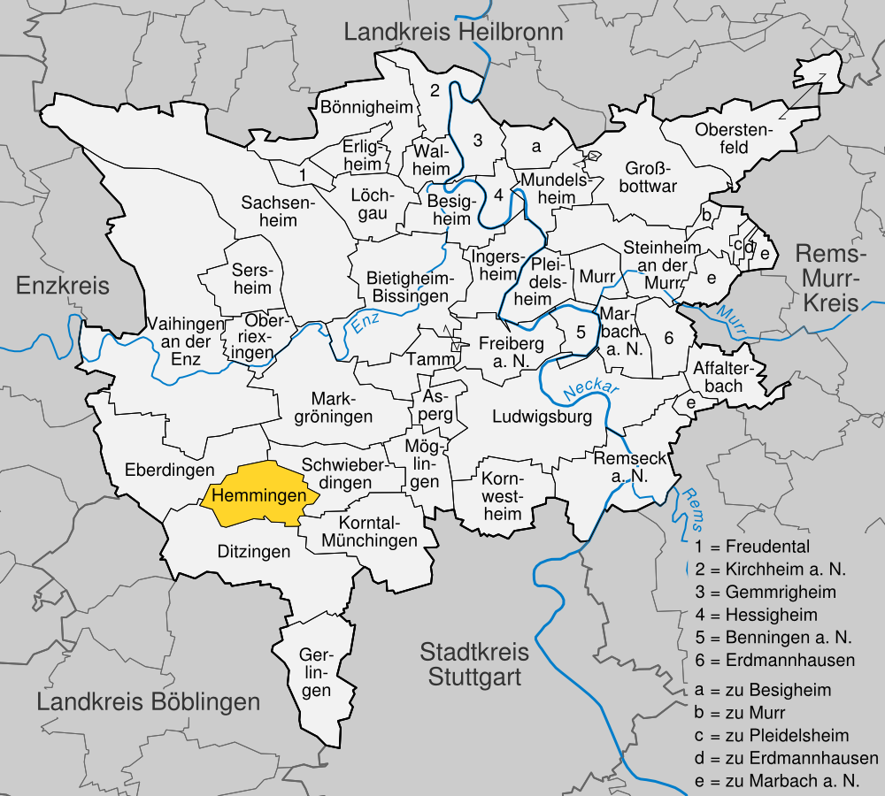 position of Hemmingen within distict of Ludwigsburg, Baden-Württemberg, Germany